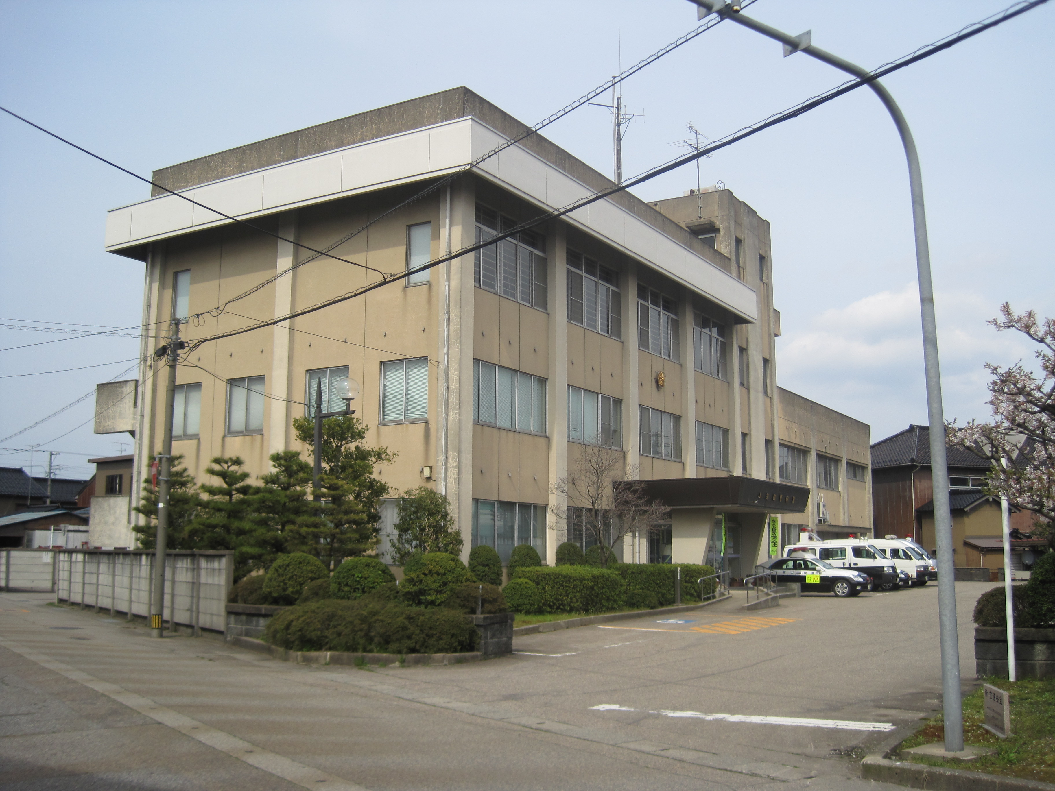 Oyabe Police Station(Oyabe city, Toyama prefecture)